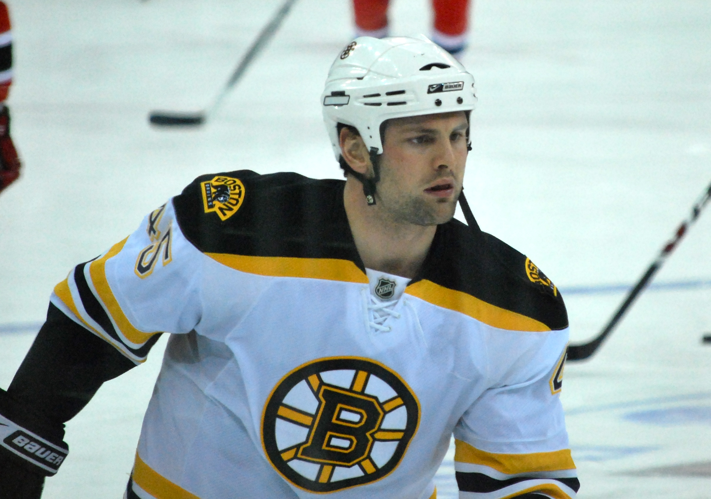 Mark Stuart